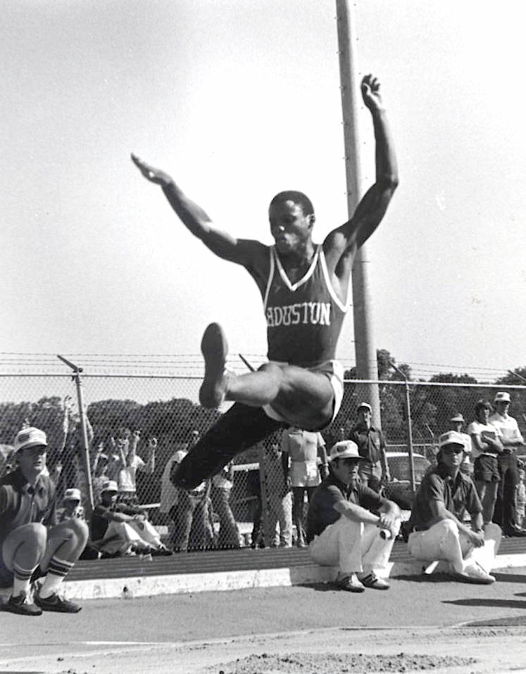 Carl Lewis in midair during a long jump for track and field as an athlete at the University of Houston